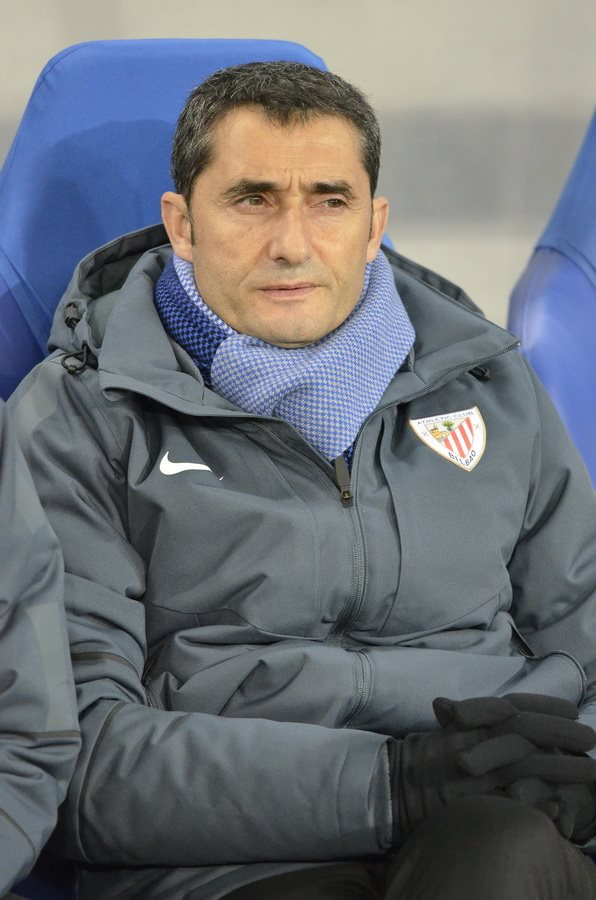 Ernesto Valverde, coach of FC.Barcelona